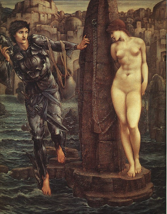 The Rock of Doom (The Perseus Cycle 6) (c. 1885-1888)